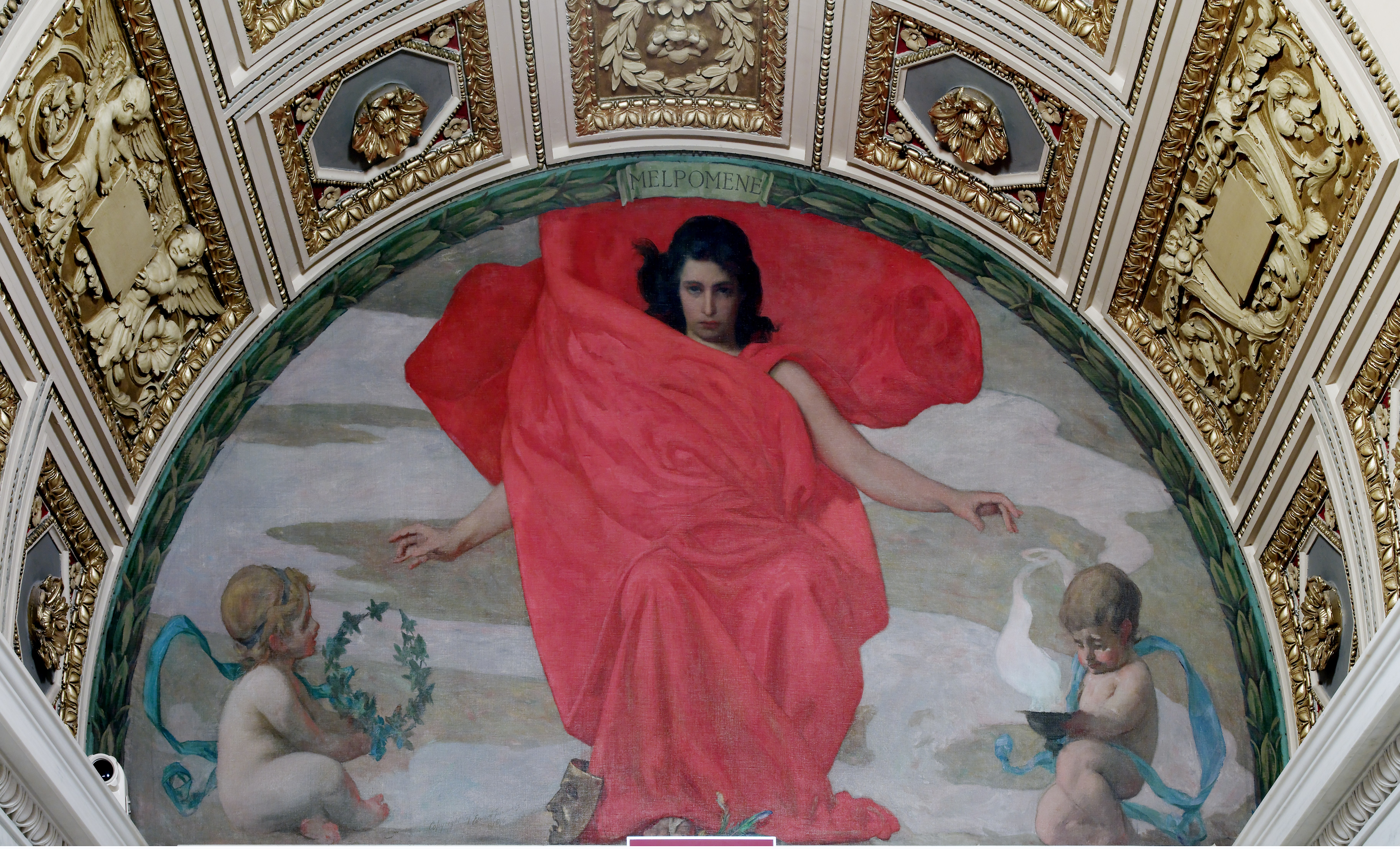 Mural depicting the muse Melpomene (Tragedy), by Edward Simmons. Northwest Corridor, First Floor, Library of Congress Thomas Jefferson Building, Washington, D.C. Top of mural reads "MELPOMENE"; artist signature reads "Copyright by Edwards Simmons 1896".